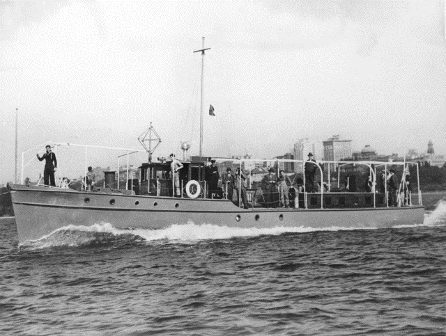 The Northern Territory administration vessel Kuru in Sydney Harbour in 1938. The ship was commissioned into the Royal Australian Navy as HMAS Kuru in 1941.